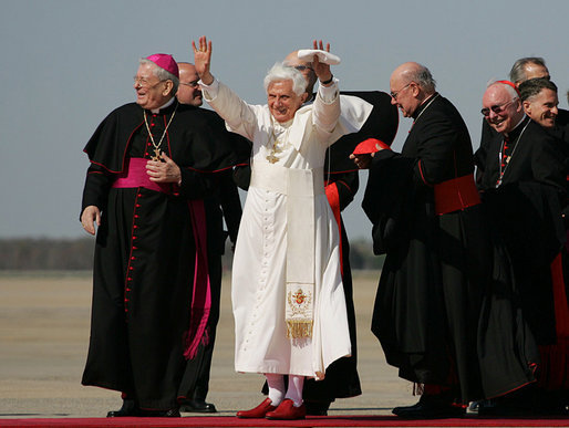 Pope Benedict XVI acknowledges the cheers of the crowd on his arrival to Andrews Air Force Base, Md., Tuesday, April 15, 2008, where he was greeted by President George W. Bush, Laura Bush and their daughter, Jenna.